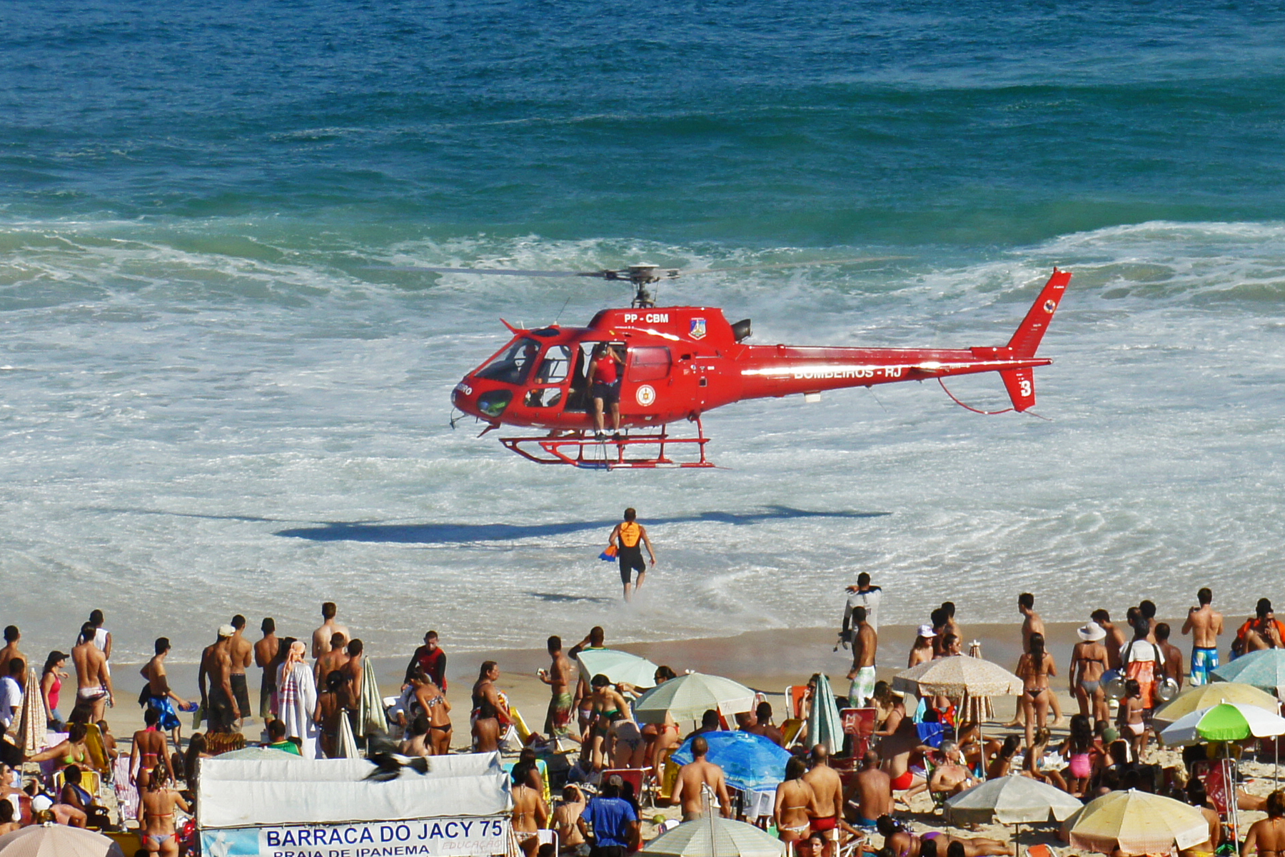 Chopper rescue at Ipanema beach, Rio de Janeiro, Brazil